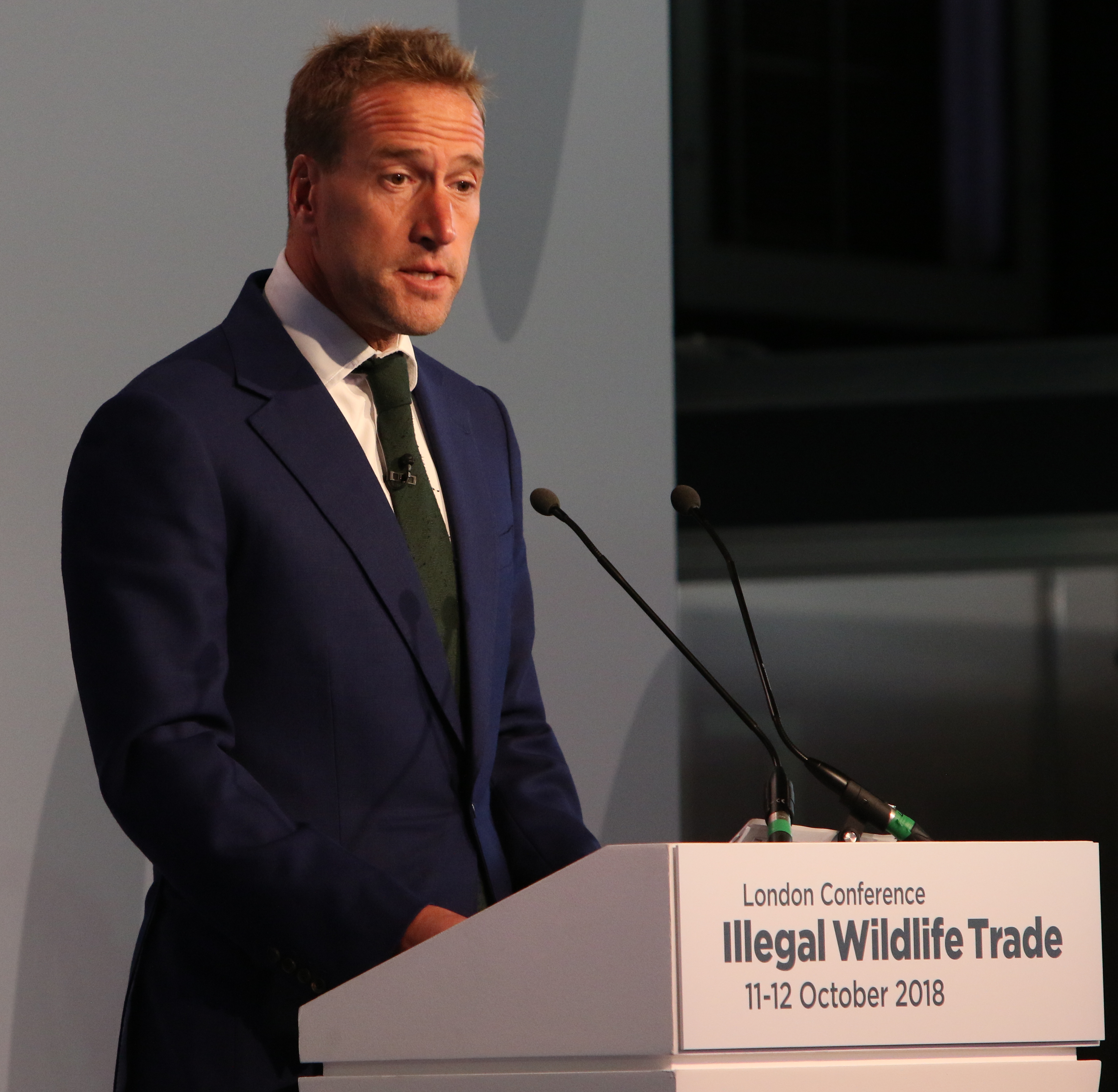 Ben Fogle, UN Environment Patron of the Wilderness speaking at the Illegal Wildlife Trade Conference: London 2018, 12 October 2018.